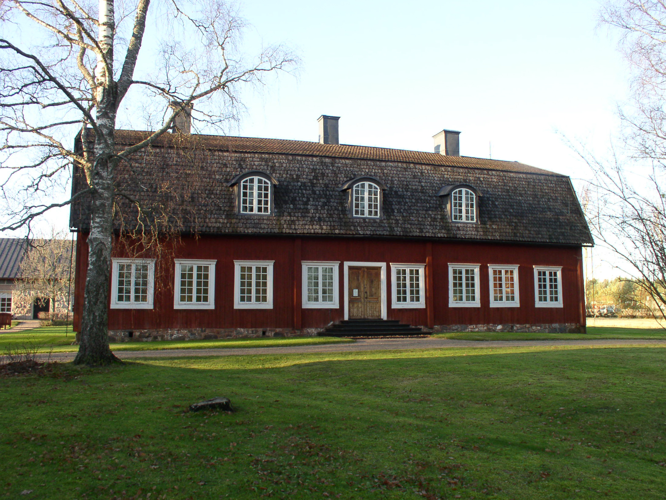 Pukkila manor in Piikkiö, Finland.